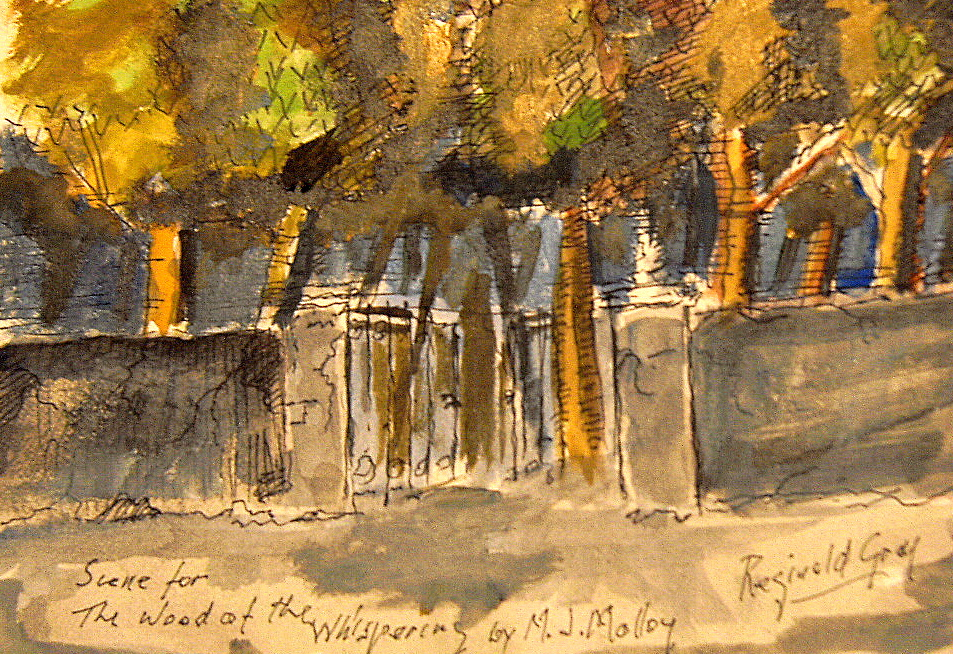 Theatre Decor